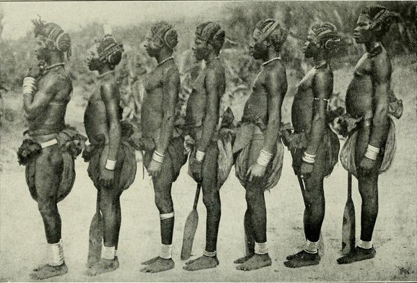 Men said to be cannibals, 1906